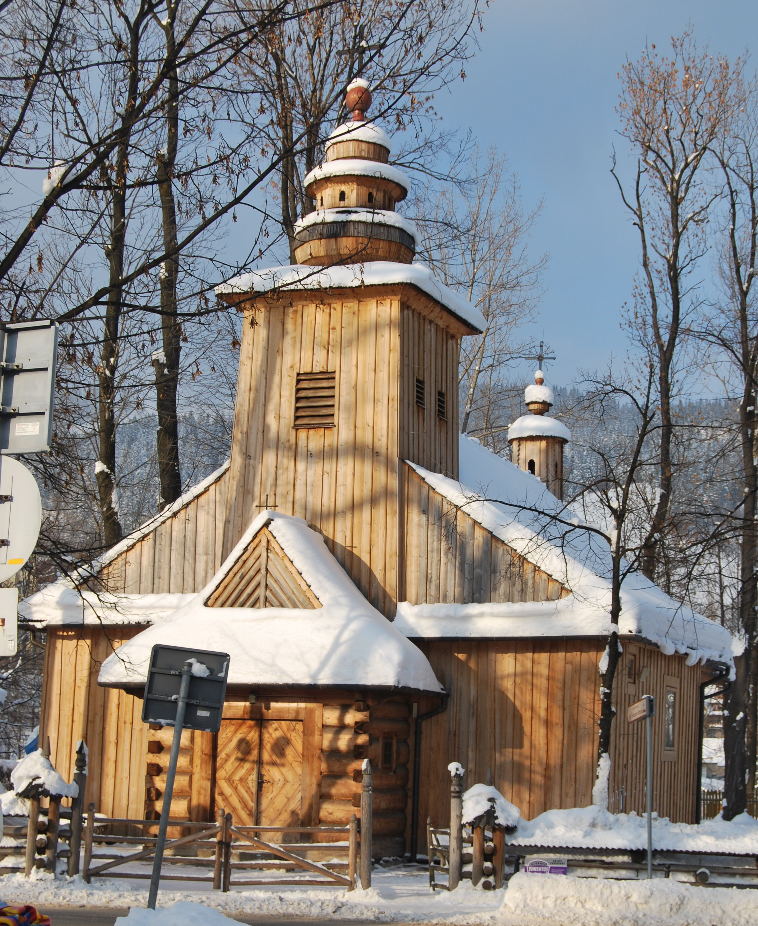 Our Lady of Częstochowa church at Pęksowy Brzyzek National Cemetery in Zakopane